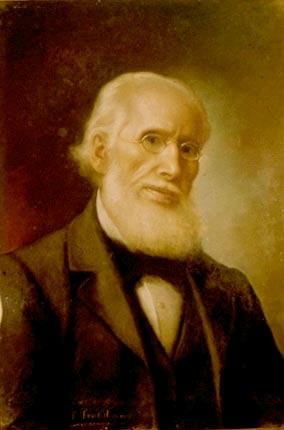 Francisco María Iglesias, Costa Rican politician and historian